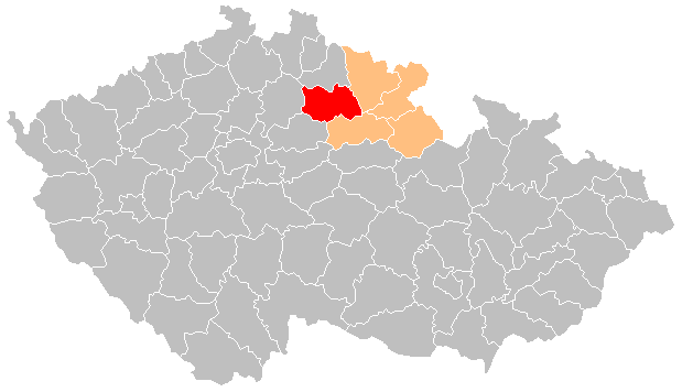 District of Jičín